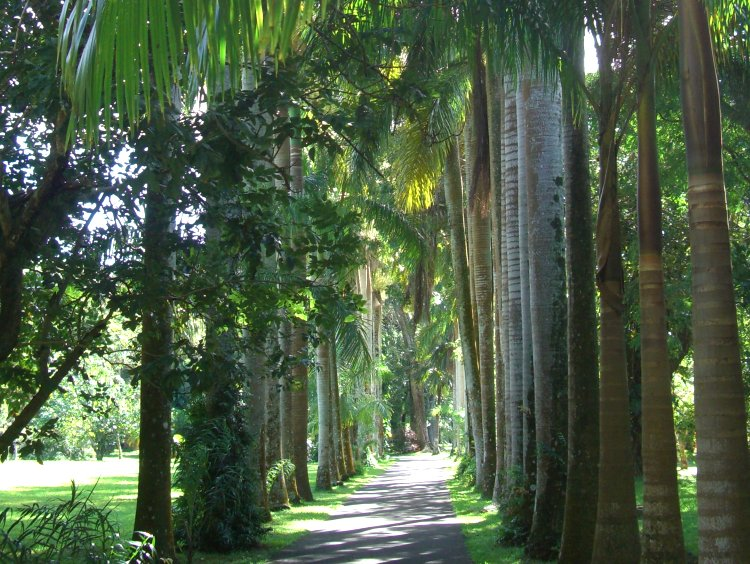 An Avenue (landscape) of Royal Palms (Roystonea regia — Roystonea oleracea), native to Cuba and photographed at the Sir Seewoosagur Ramgoolam Botanical Garden—Pamplemousses Botanical Gardens in Mauritius.